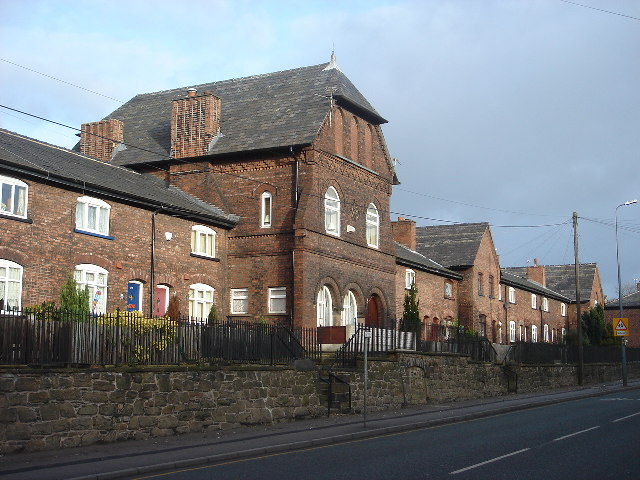 Howe Bridge A whole village was built at Howe Bridge in the 1870's, for the miners at the nearby coal mines. There are rows of brick built cottages, with shops and a school. The tall building in the photo was the miners' bath house.